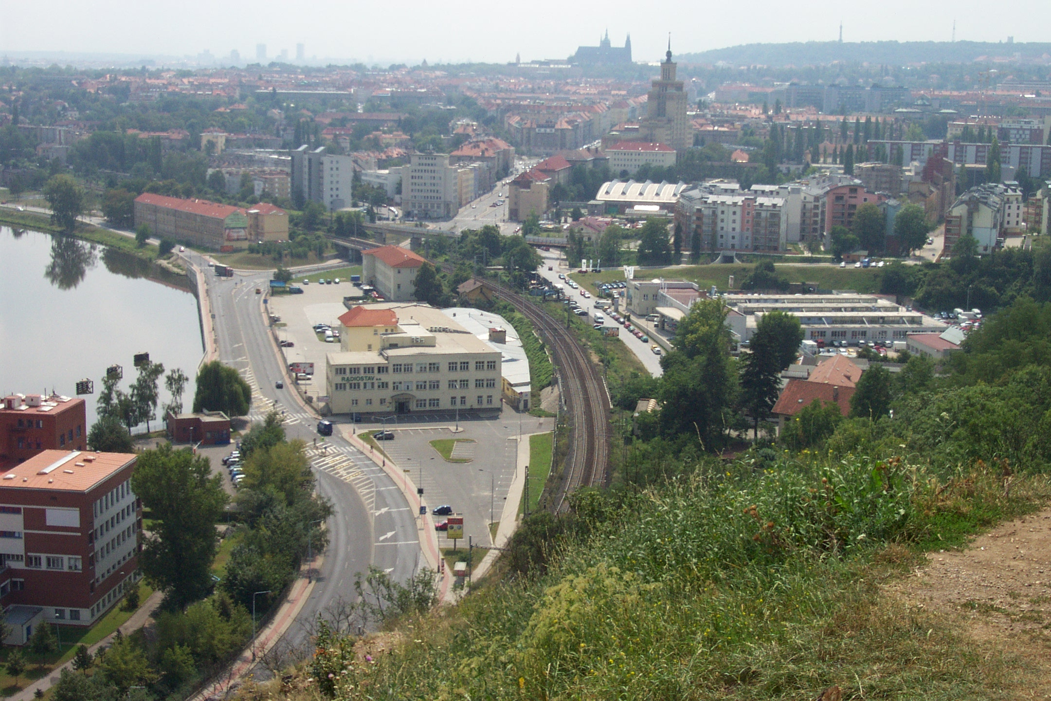 A wiev on czech hydrologic institute from Baba